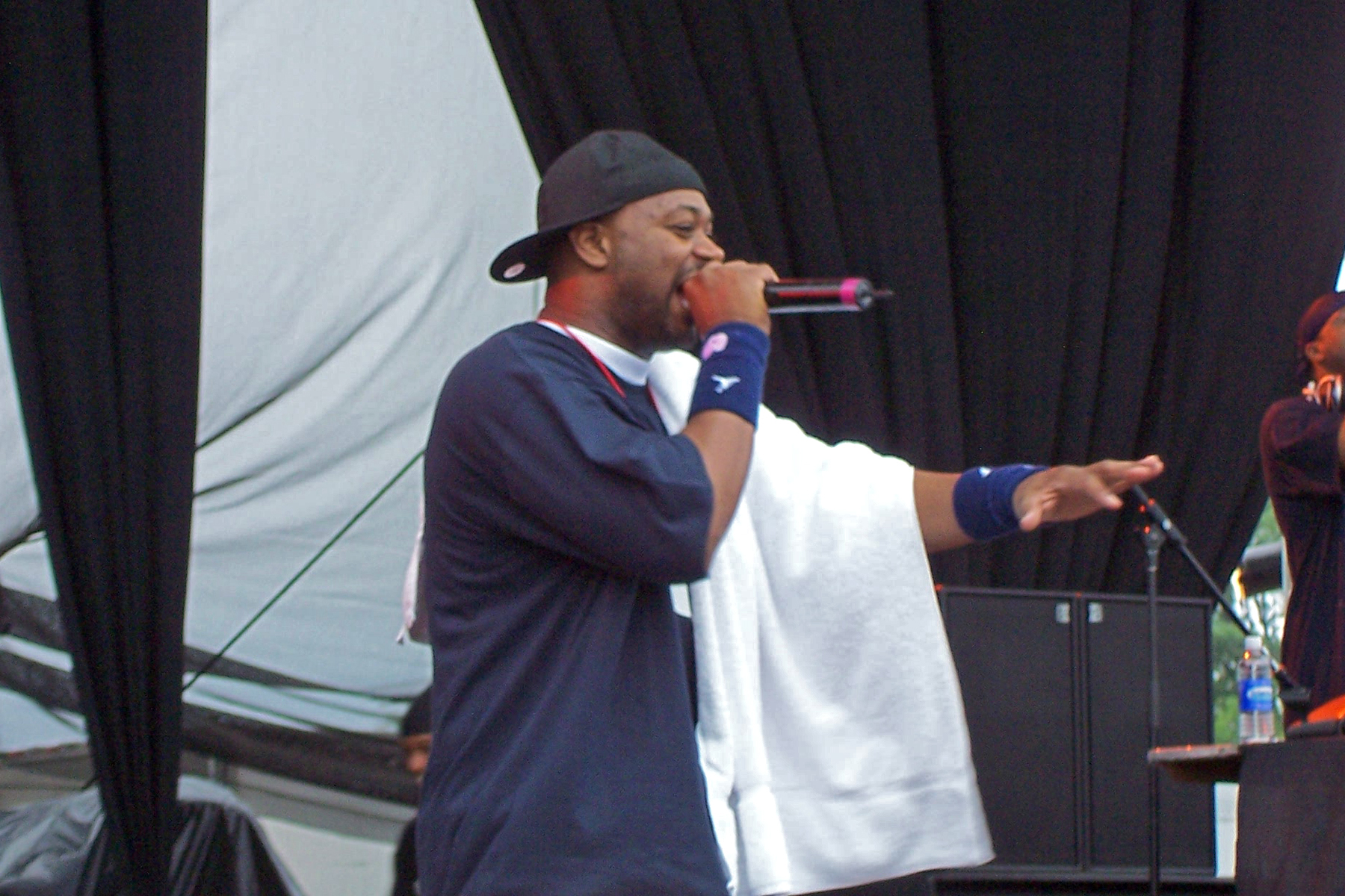 Ghostface Killah at the Virgin Festival in 2007.